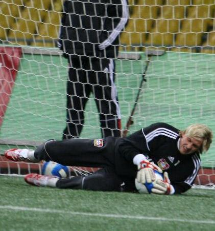 René Adler